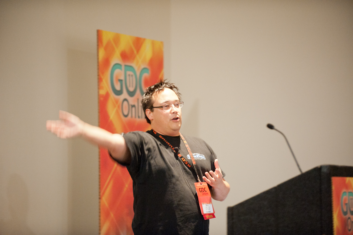 Max Photography for GDC Online © GDC Online